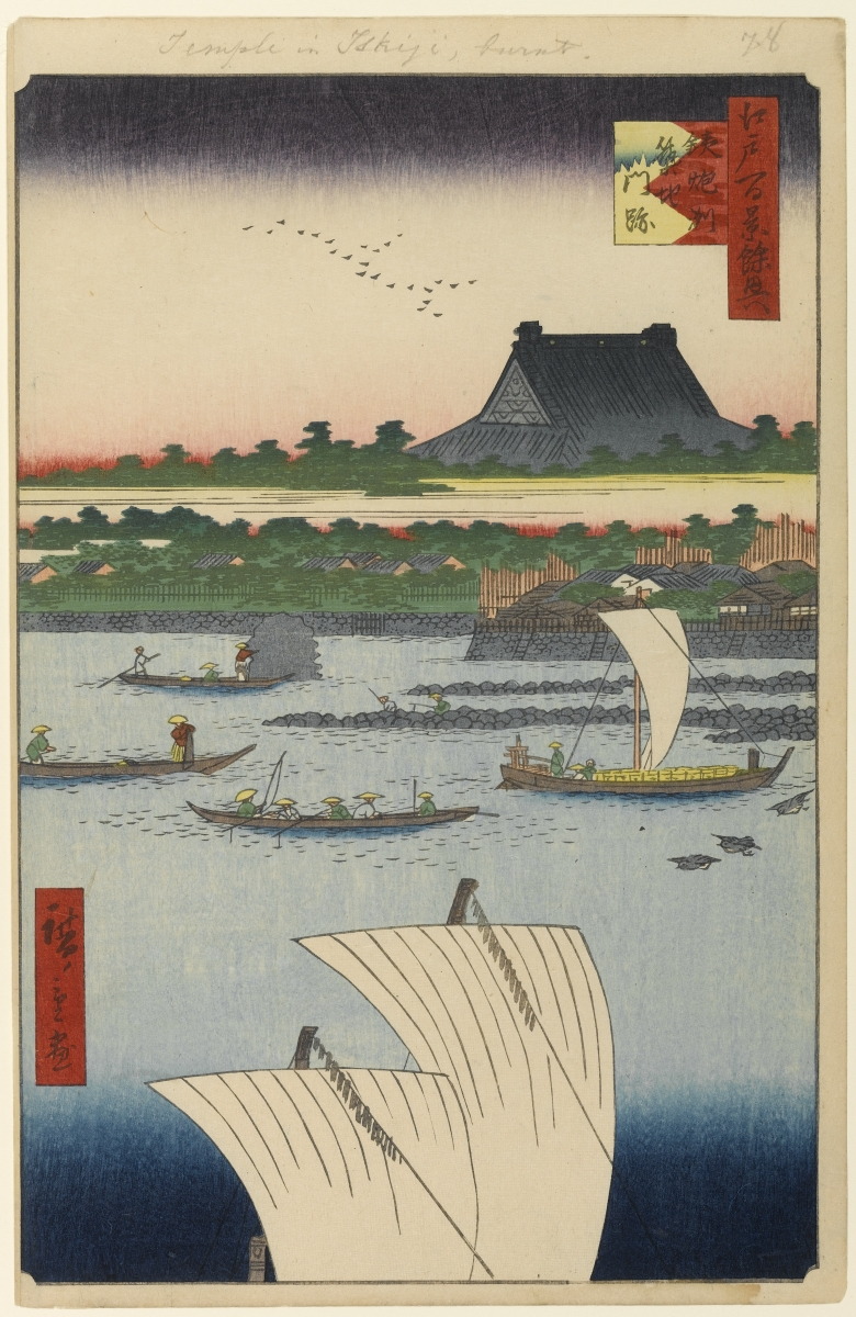 Part of the series One Hundred Famous Views of Edo, no. 078, part 3: Autumn.